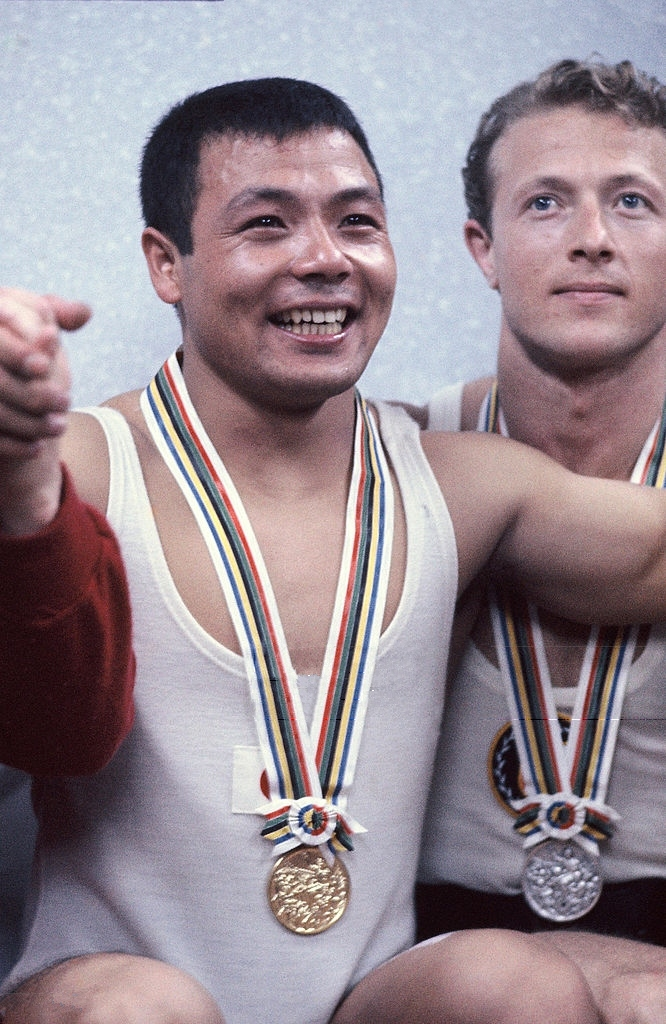 Yoshinobu Miyake and Isaac Berger at the 1964 Olympics in Tokyo, Japan